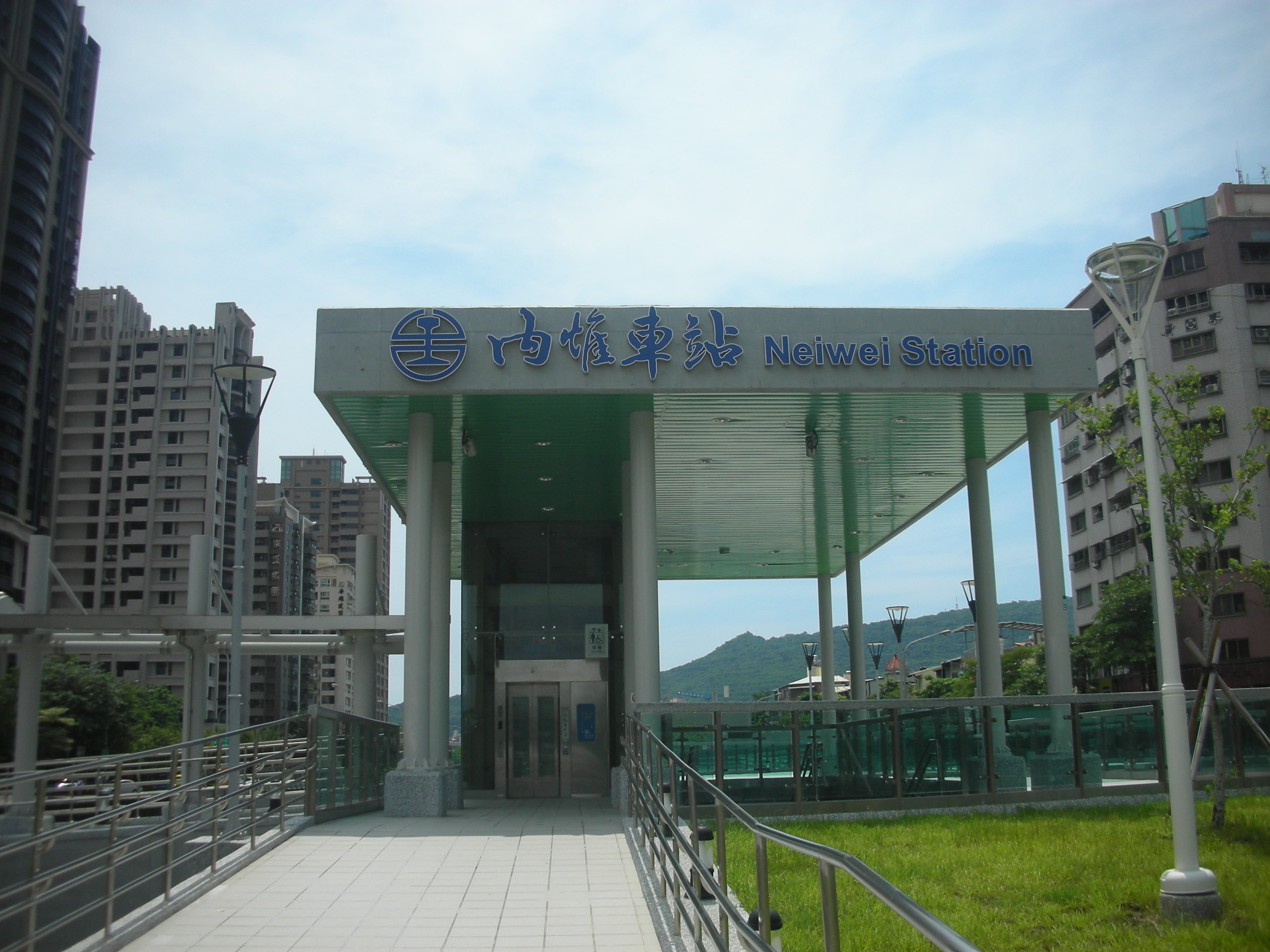 North Entrance of TRA Newei station